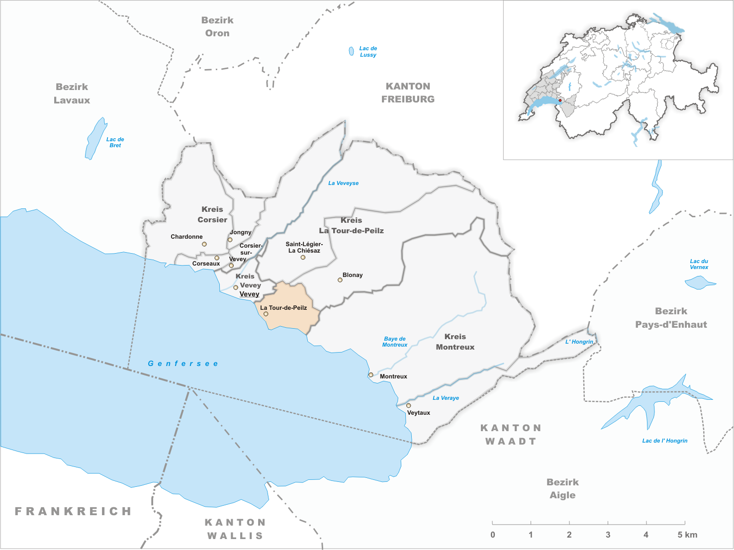 Municipality La Tour-de-Peilz